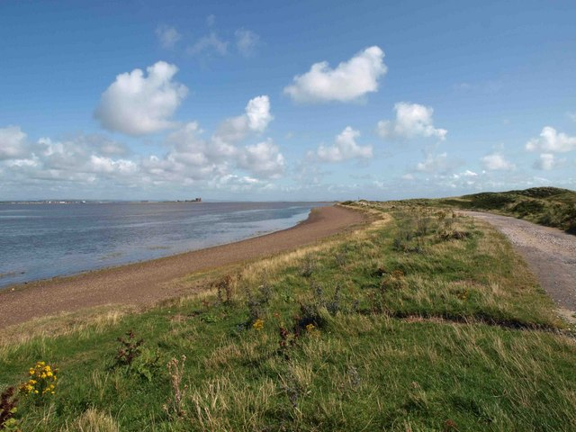 The shingle beach at South Walney Near the start of the red trail from the nature reserve car park.